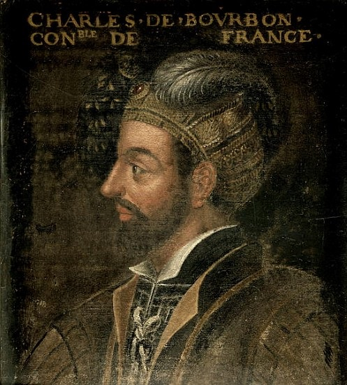 Portrait of Charles III, Duke of Bourbon (1490-1527), Constable of France